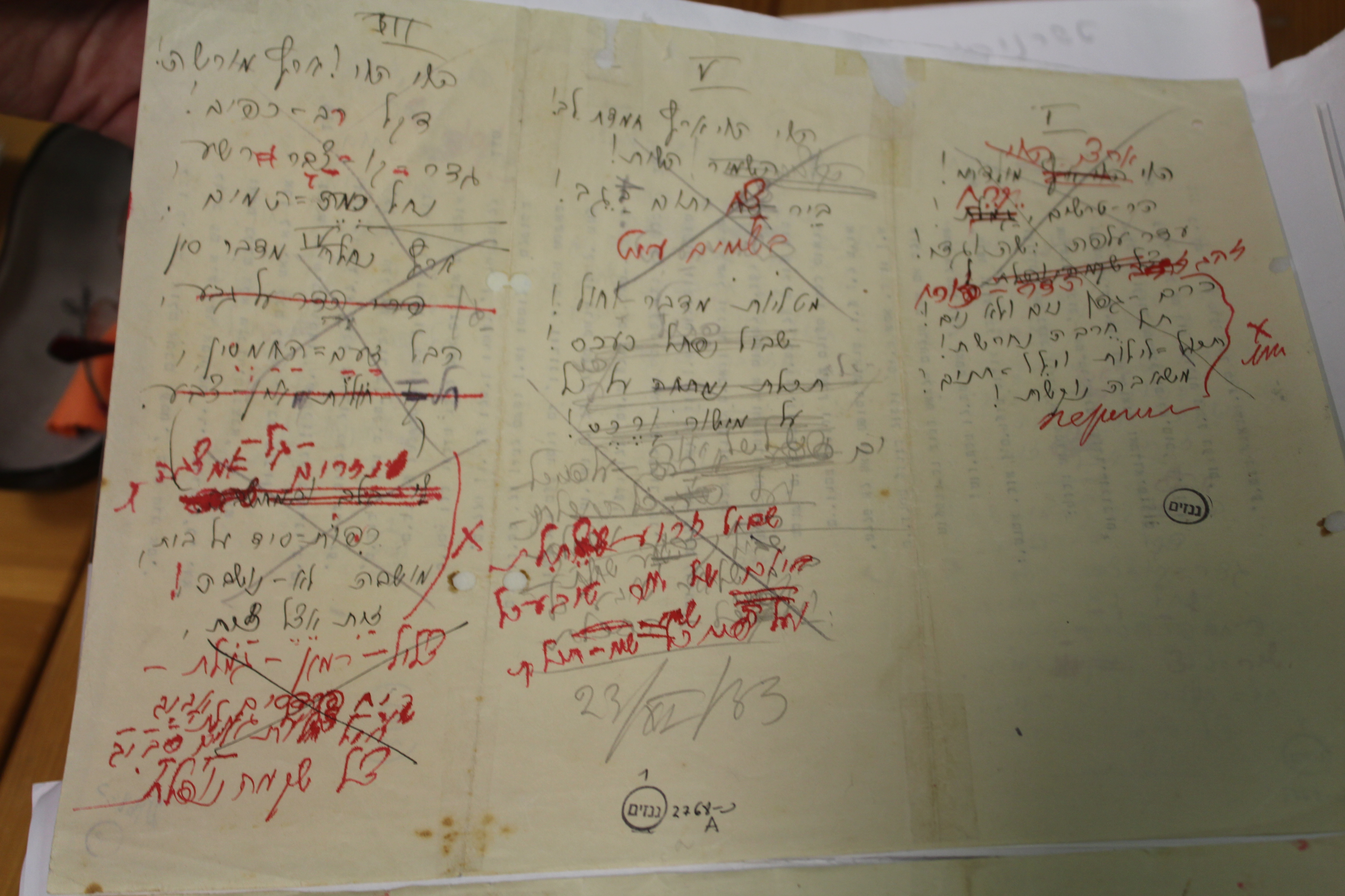 documents at Gnazim Institute archive, Beit Ariela, Tel Aviv, Israel This image was taken as part of the Elef Millim project tour of the Gnazim Archive, in Beit Ariela in Tel Aviv, in Israel which was held on Sunday, 24th March 2019. To view all images uploaded as part of the Elef Millim Project This file of Poems by the poet Shaul Tchernichovsky was donated to Wikimedia Commons by the Gnazim Archiveas part of a collaboration project with Wikimedia Israel. To view all images donated as part of the collaboration project Shaul Tchernichovsky (1875–1943) Alternative names שאול טשרניחובסקיDescriptionRussian poet, translator, physician and writerIsraeli poetDate of birth/death 20 August 1875 14 October 1943Location of birth/death Mykhailivka JerusalemAuthority control : Q521410 VIAF: 12420180 ISNI: 0000 0001 0870 7551 LCCN: n82071938 NLA: 35791987 MusicBrainz: 012b1f47-e09a-4824-b991-060eccd52cc0 WorldCat creator QS:P170,Q521410